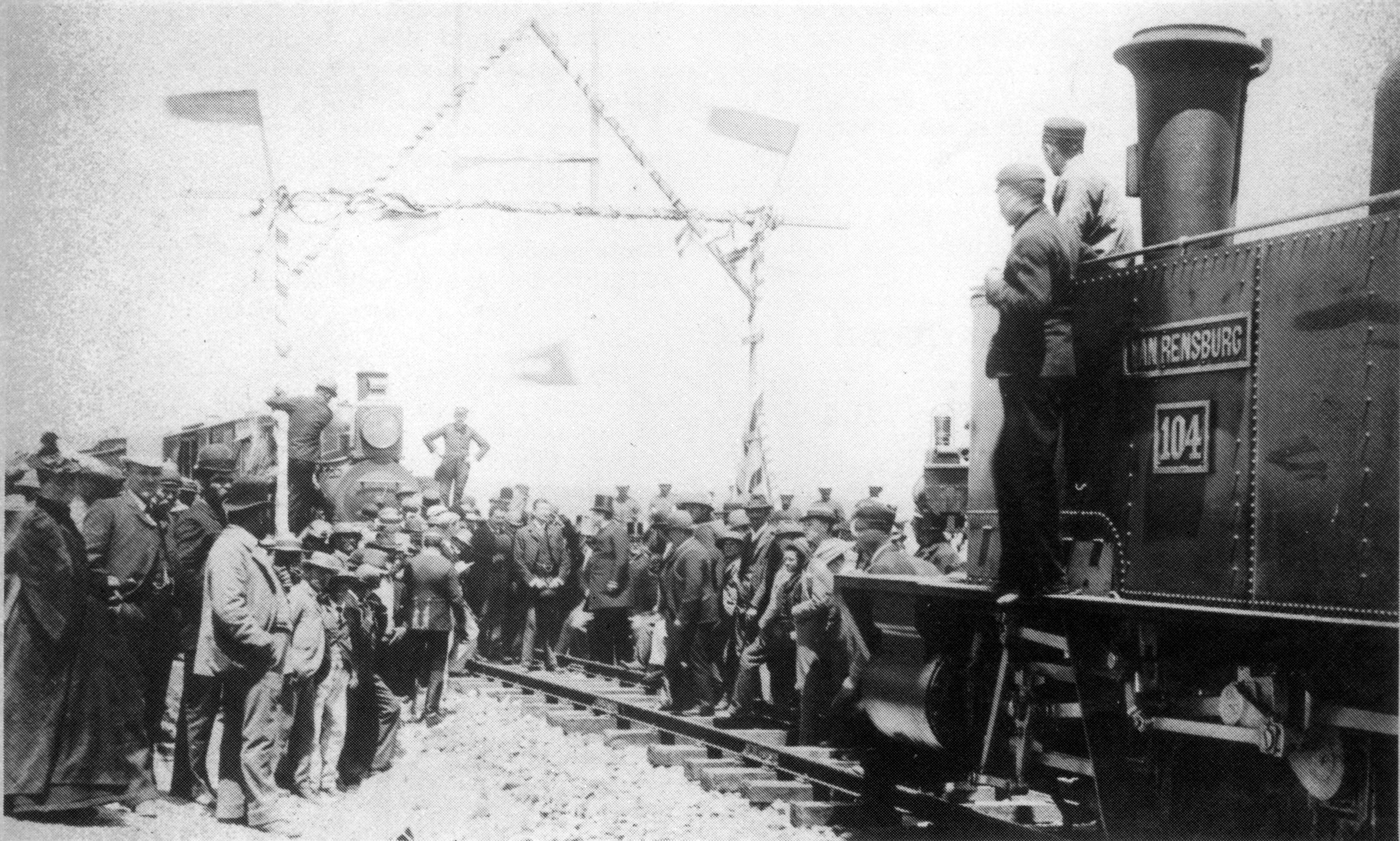 Last bolt ceremony on the railway line from Natal to Transvaal at Heidelberg (South Africa).